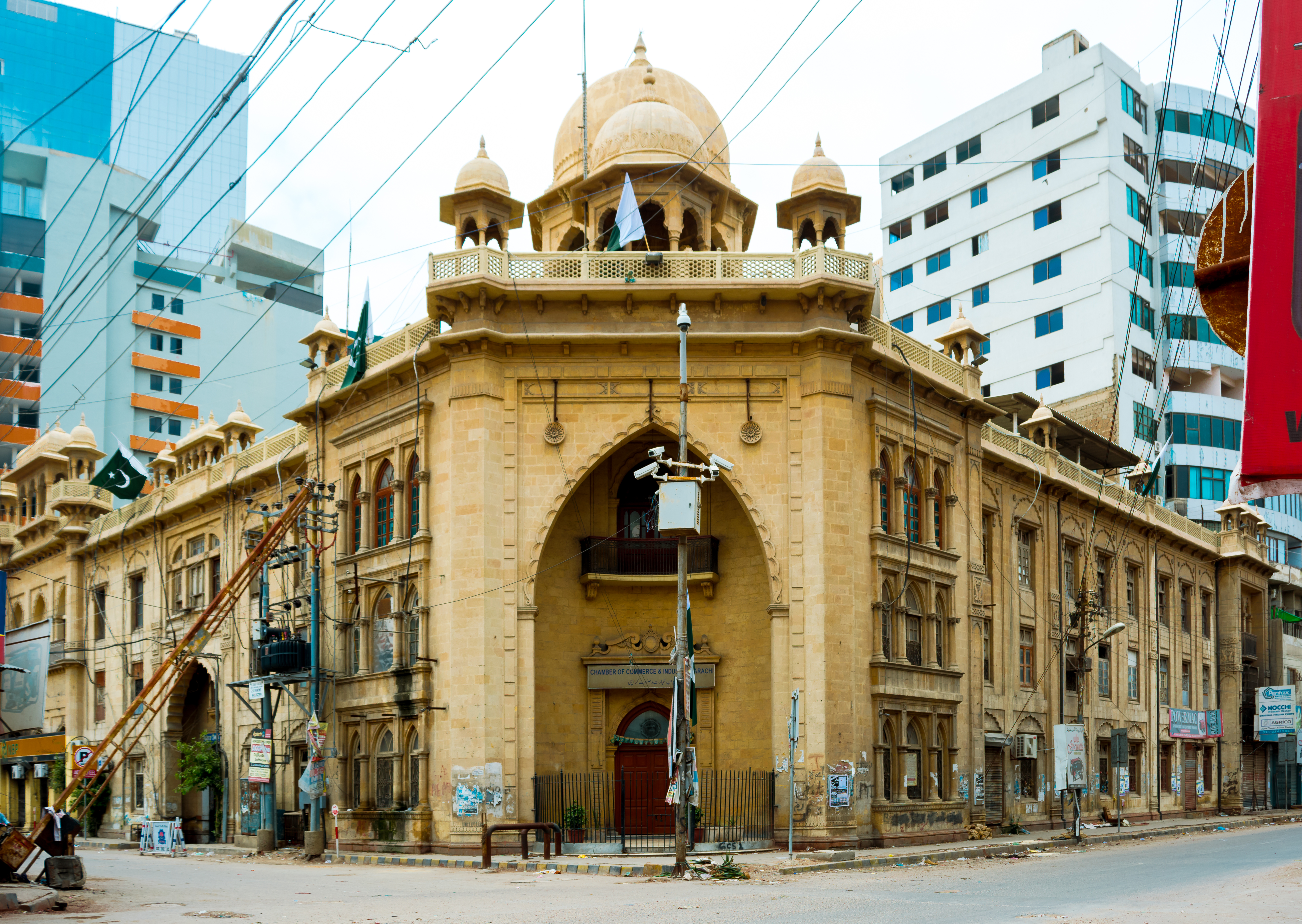 Karachi Chamber of Commerce This is a photo of a monument in Pakistan identified as the SD-P-228